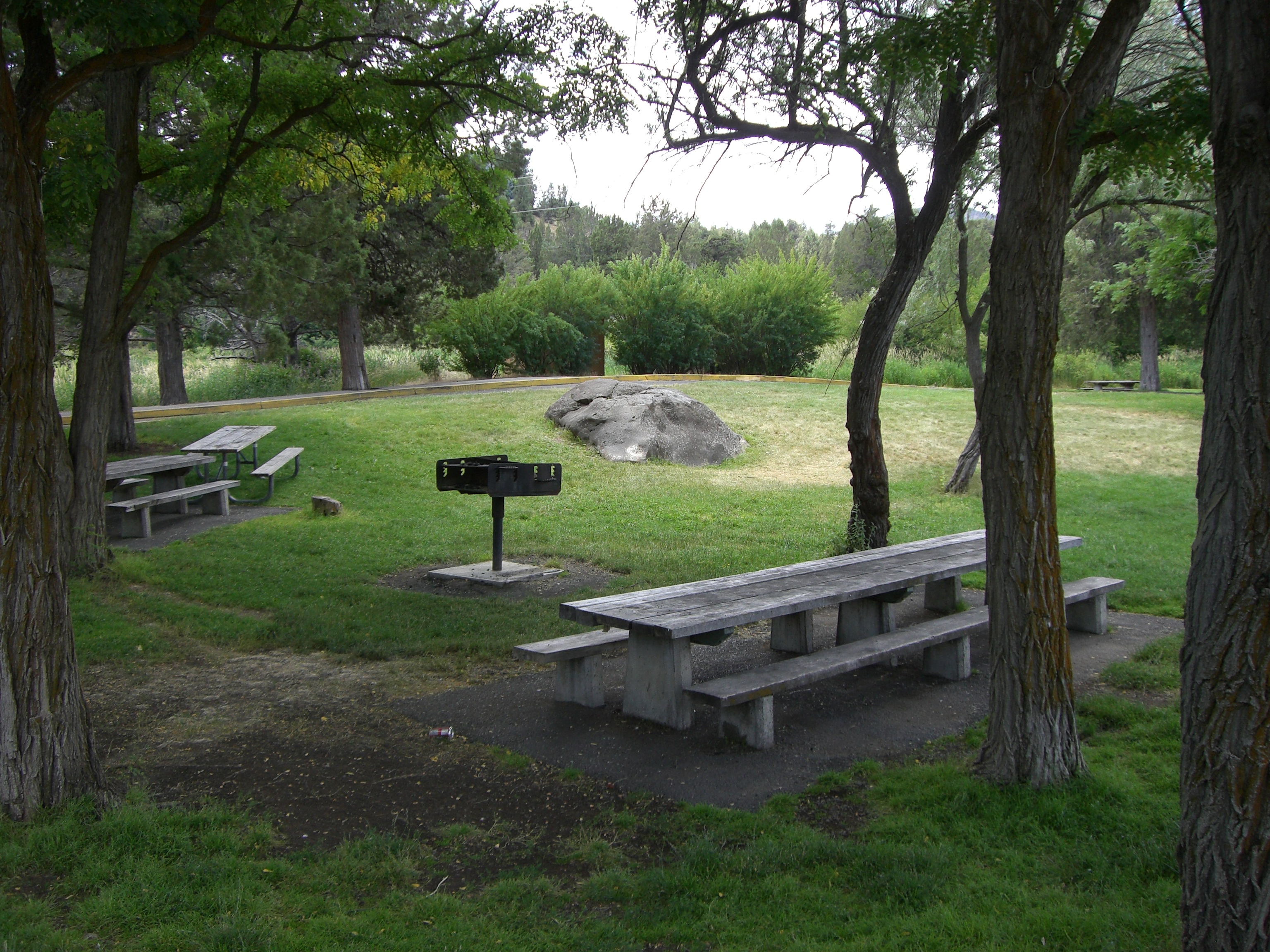 Picnic area at Cline Falls State Park along the Descutes River near Redmond, Oregon